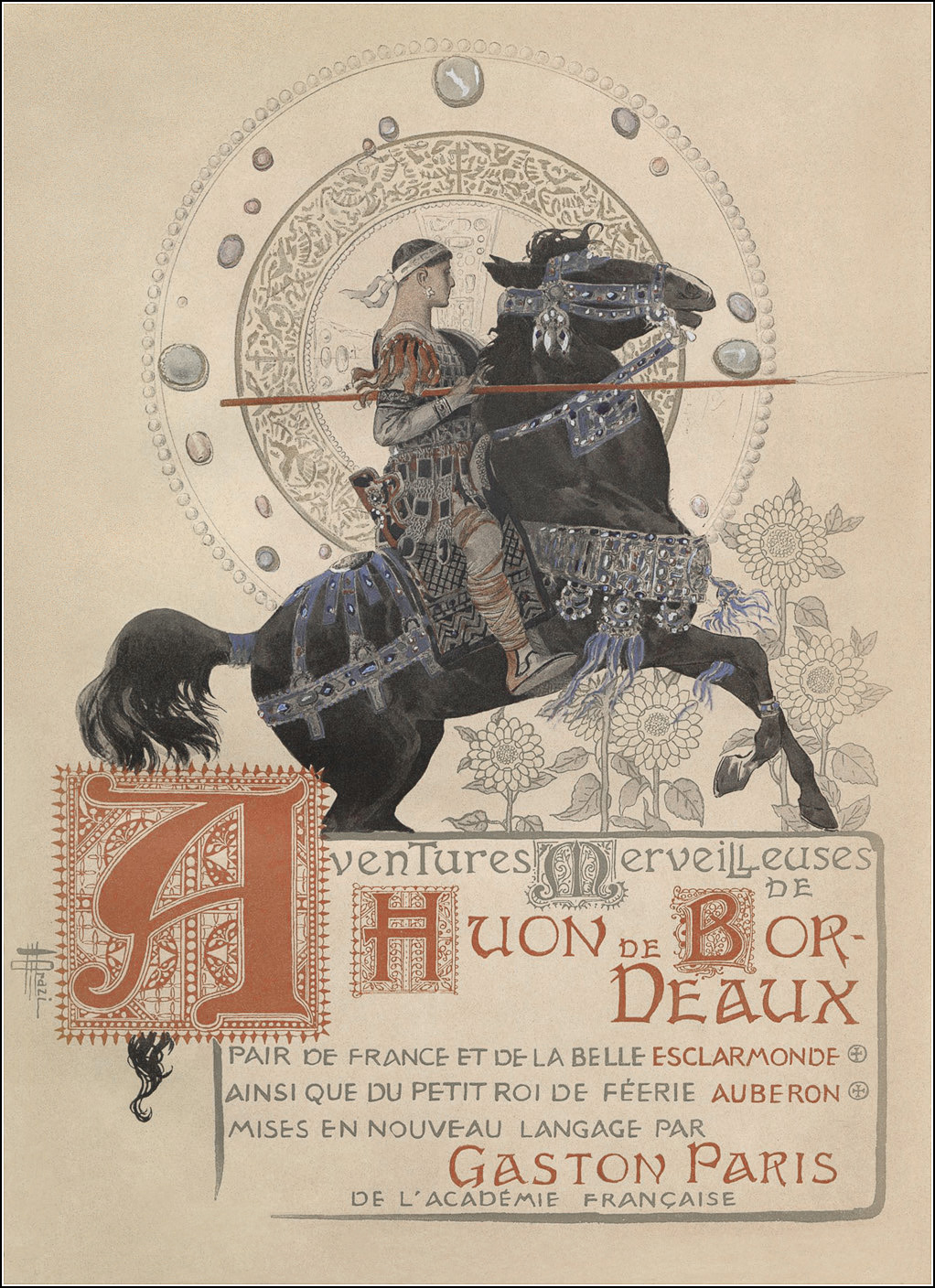 An illustration of the epic Huon de Bordeaux